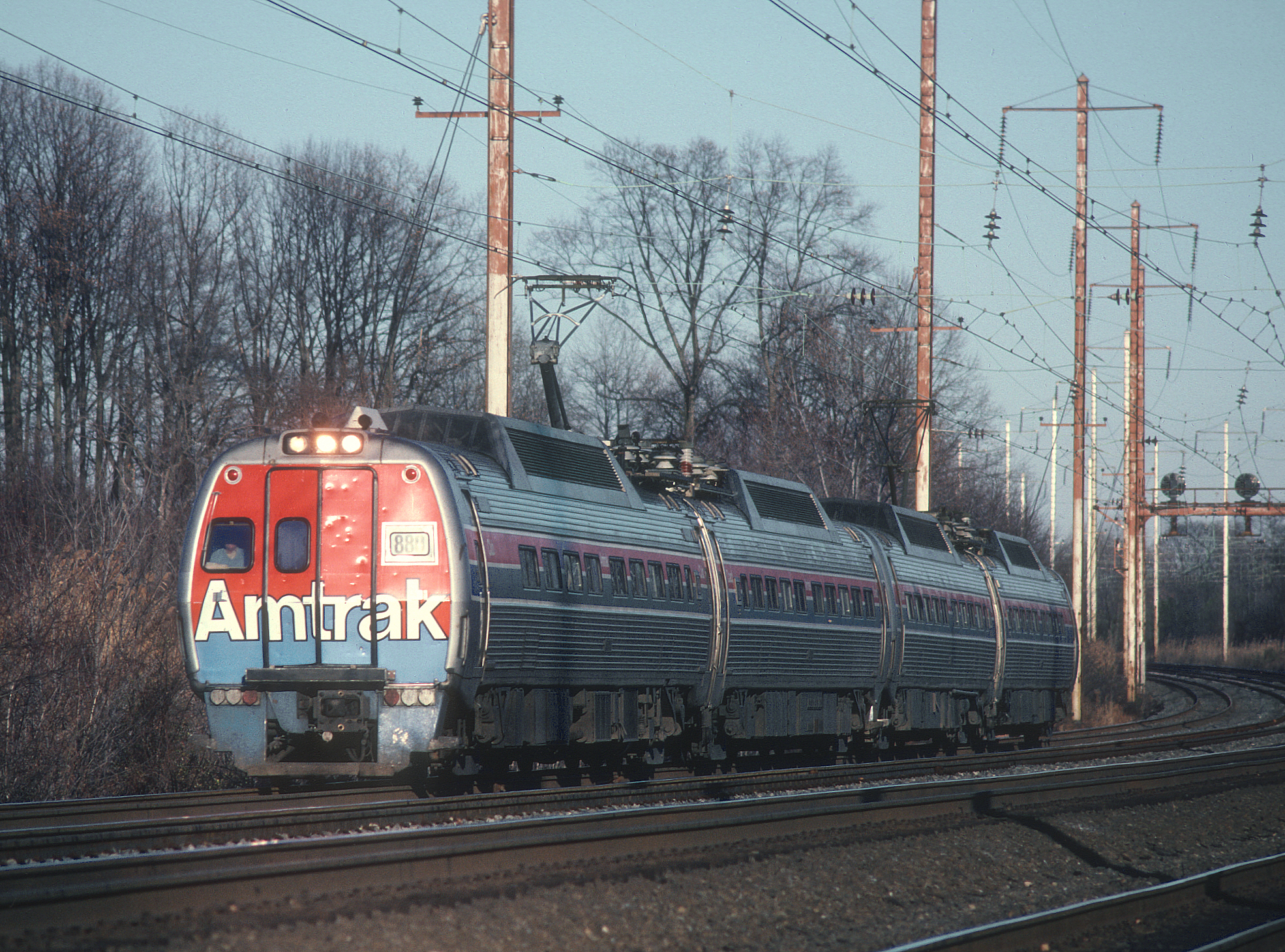 Cab car #880 leads a southbound Metroliner through Bowie, Maryland in December 1980